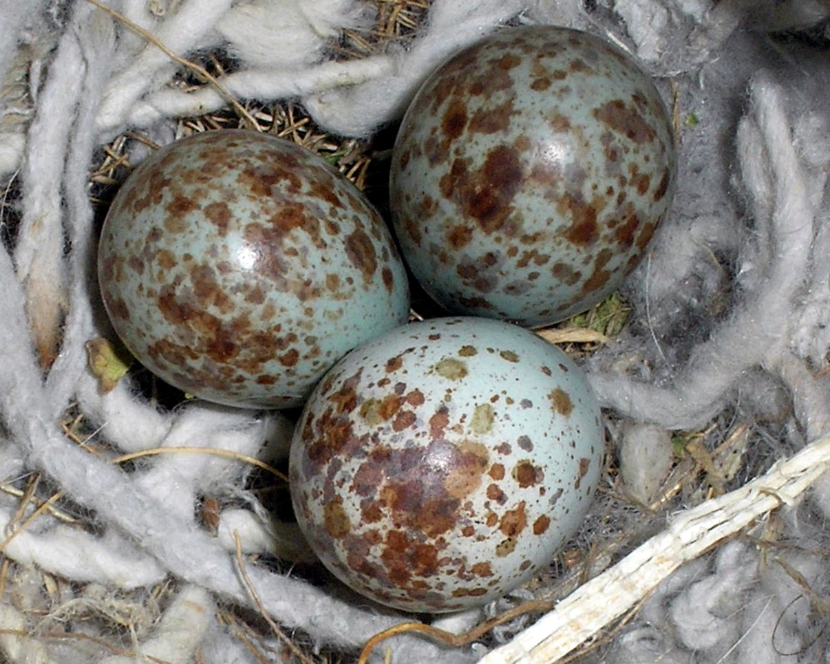 Picture of Northern Mockingbird eggs in nest taken in Las Vegas, NV